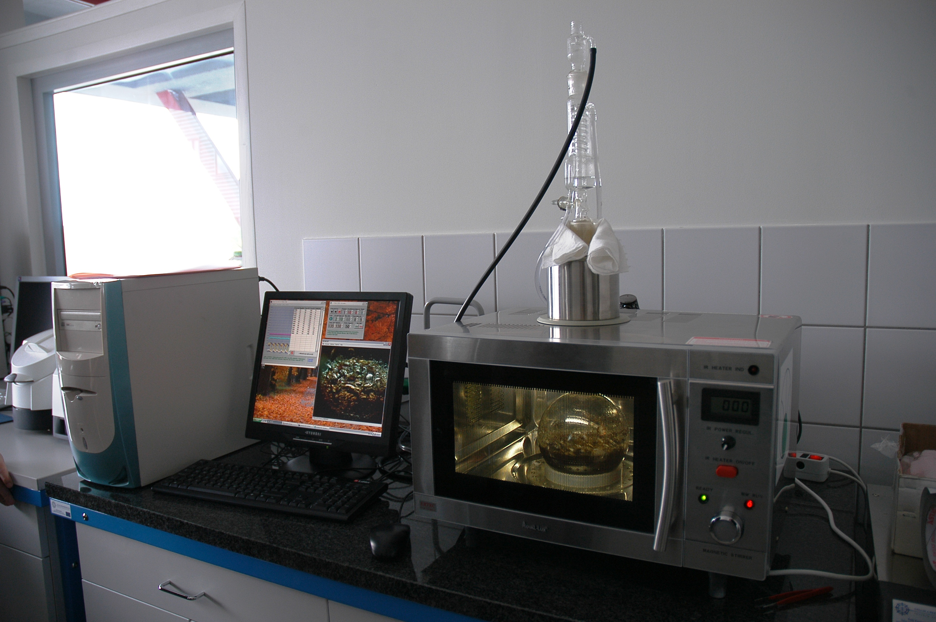 Microwave reactor produced by Ertec-Poland Dr. Edward Reszke